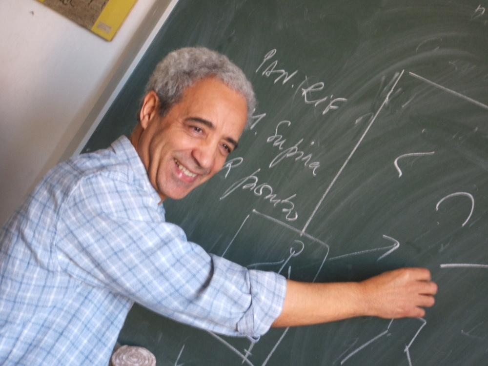 Kadour Naimi teacher at film school, which he founded in Rome in 1986 and led it until its closure in 2009.